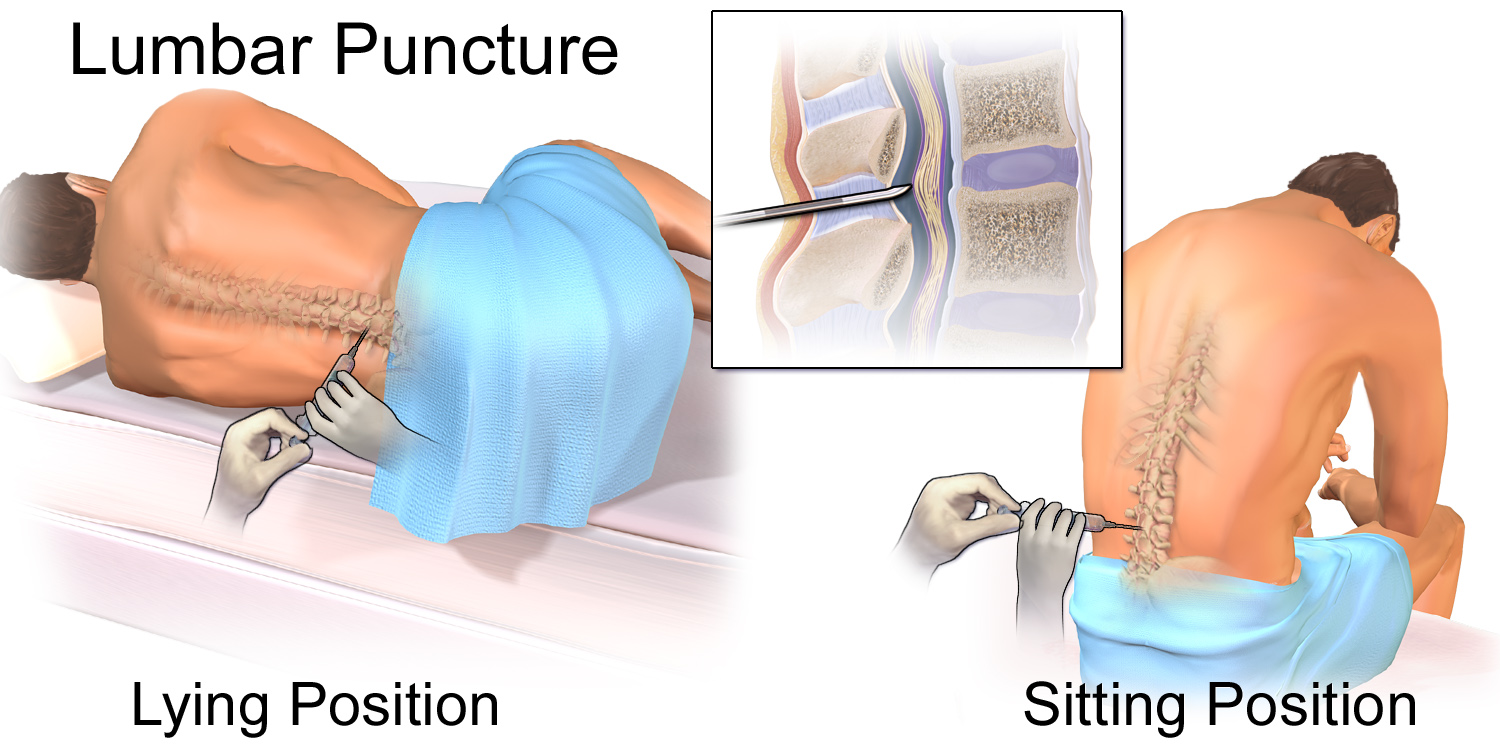 Lumbar Puncture. See a related animation of this medical topic.